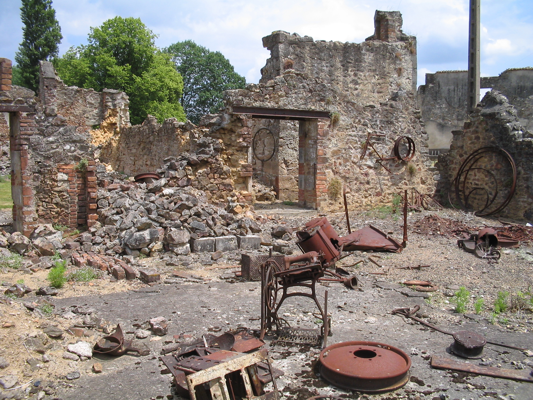 Wrecked hardware - bicycles, a sewing machine etc. in Oradour-sur Glane. This is a photograph which I took during a visit to the French village Oradour-sur-Glane on June 11 2004, exactly 60 years after its destruction by the German army during World War II.